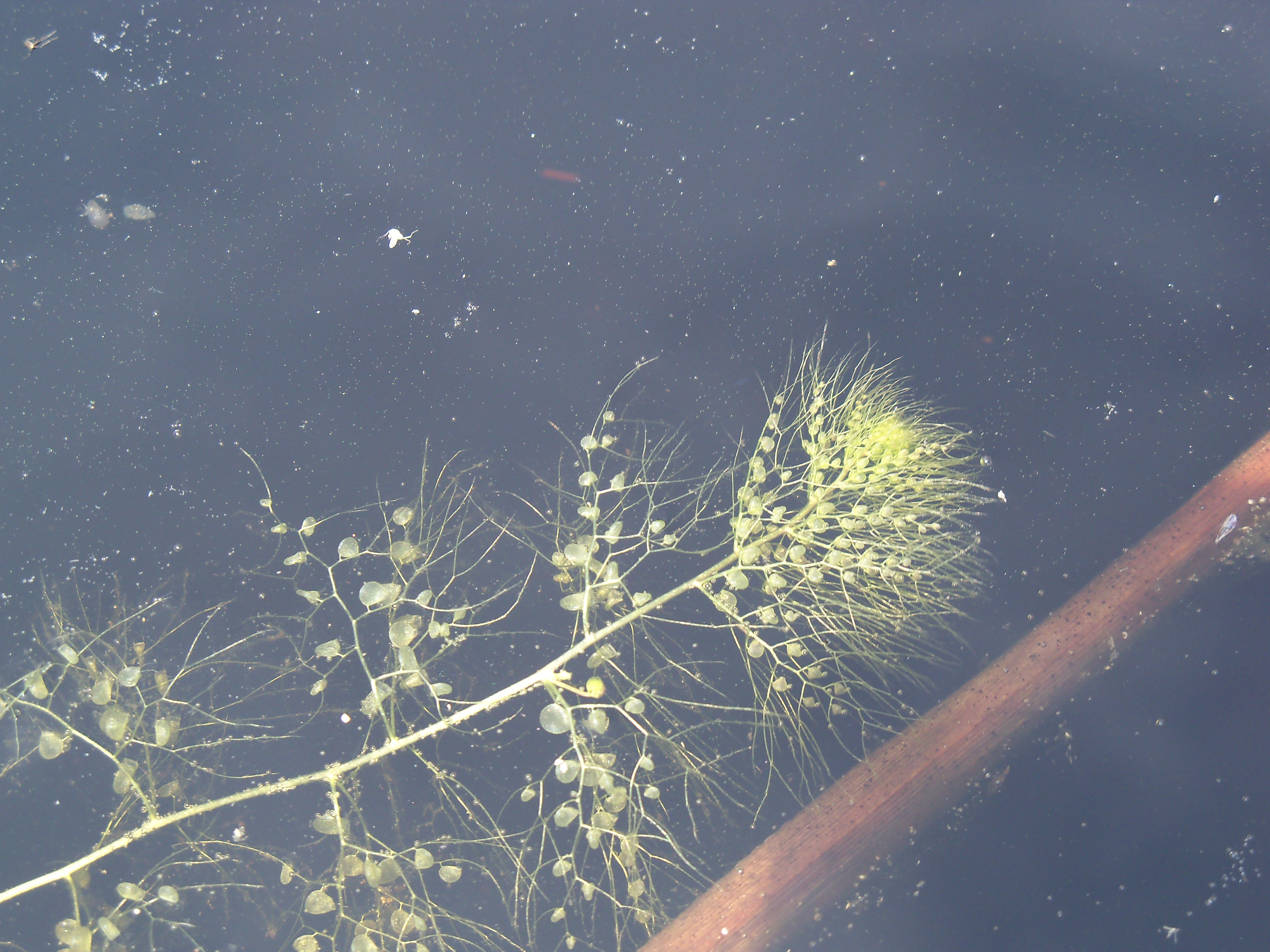 Utricularia geminiscapa, Pinhook Bog